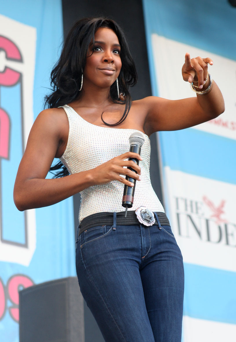 Kelly Rowland 4 - Rowland appearing in 2009 at the 'Love Music Hate Racism' music festival in Stoke-on-Trent, United Kingdom